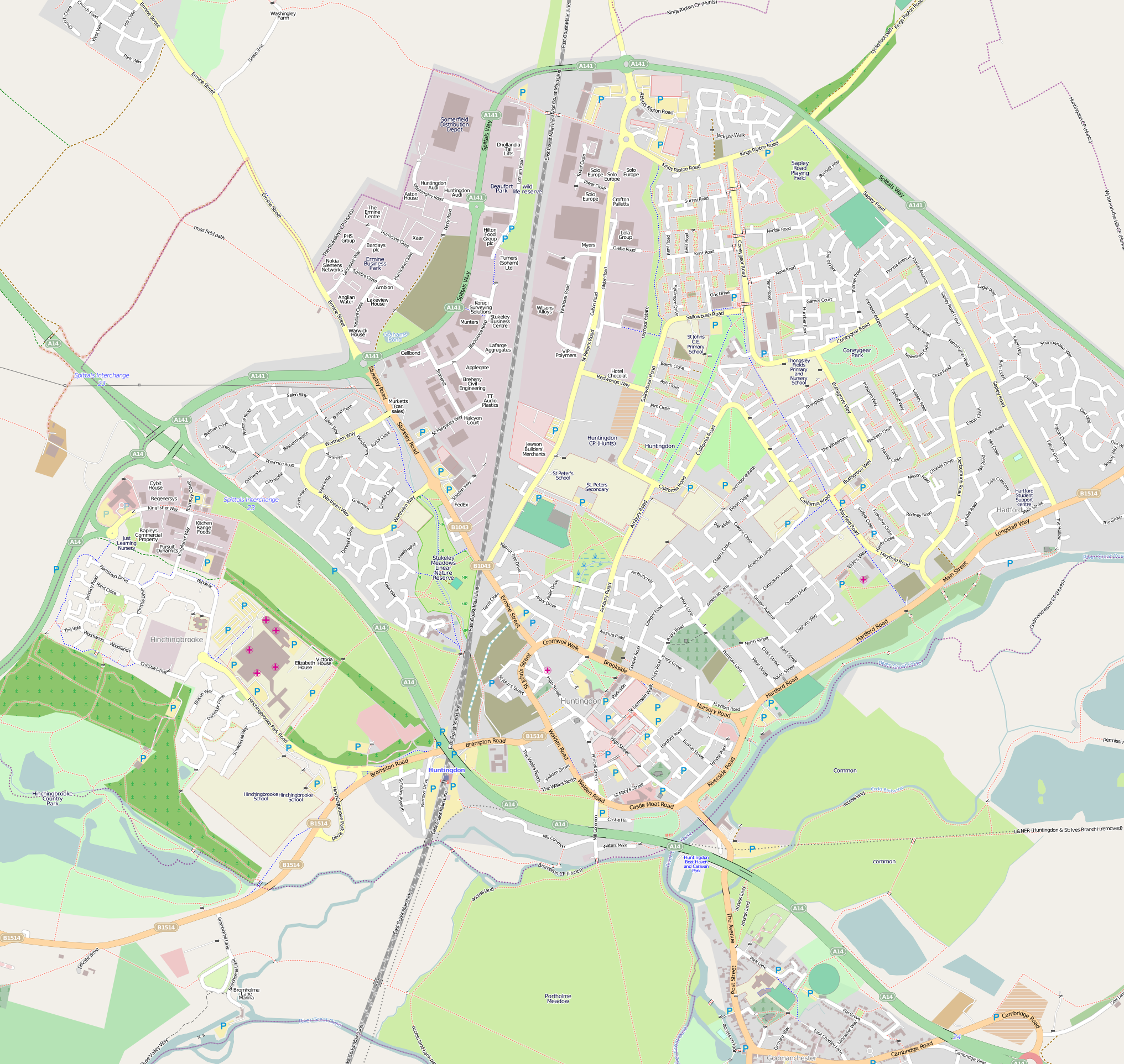 Map of Huntingdon Geographic limits: N: 52.3547° S: 52.3199° W: -0.2178° E: -0.1539°